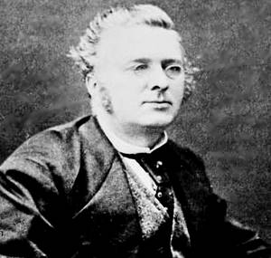 Boyd, John 1826 - 1893 (Became Senator)